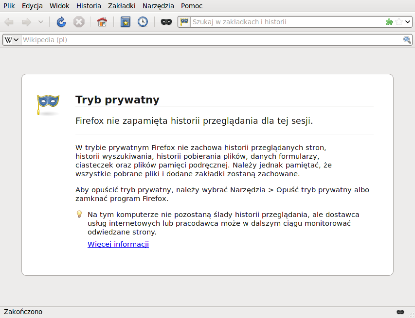 This is screenshot from polish localization of Mozilla Firefox 3.5. It show private mode.